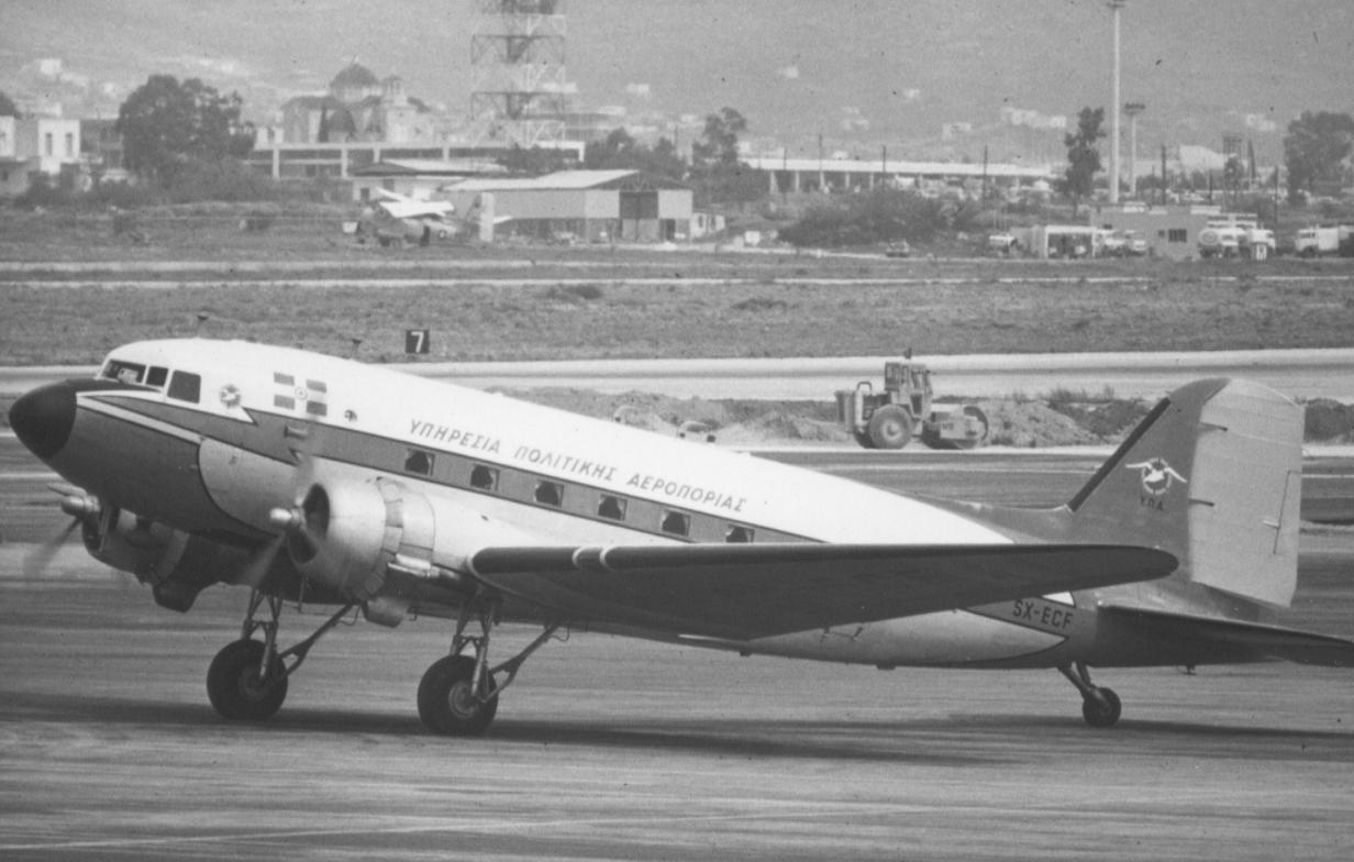 Douglas DC-3 (C-47) Dakota of the Hellenic CAA at Athens Hellenikon Airport